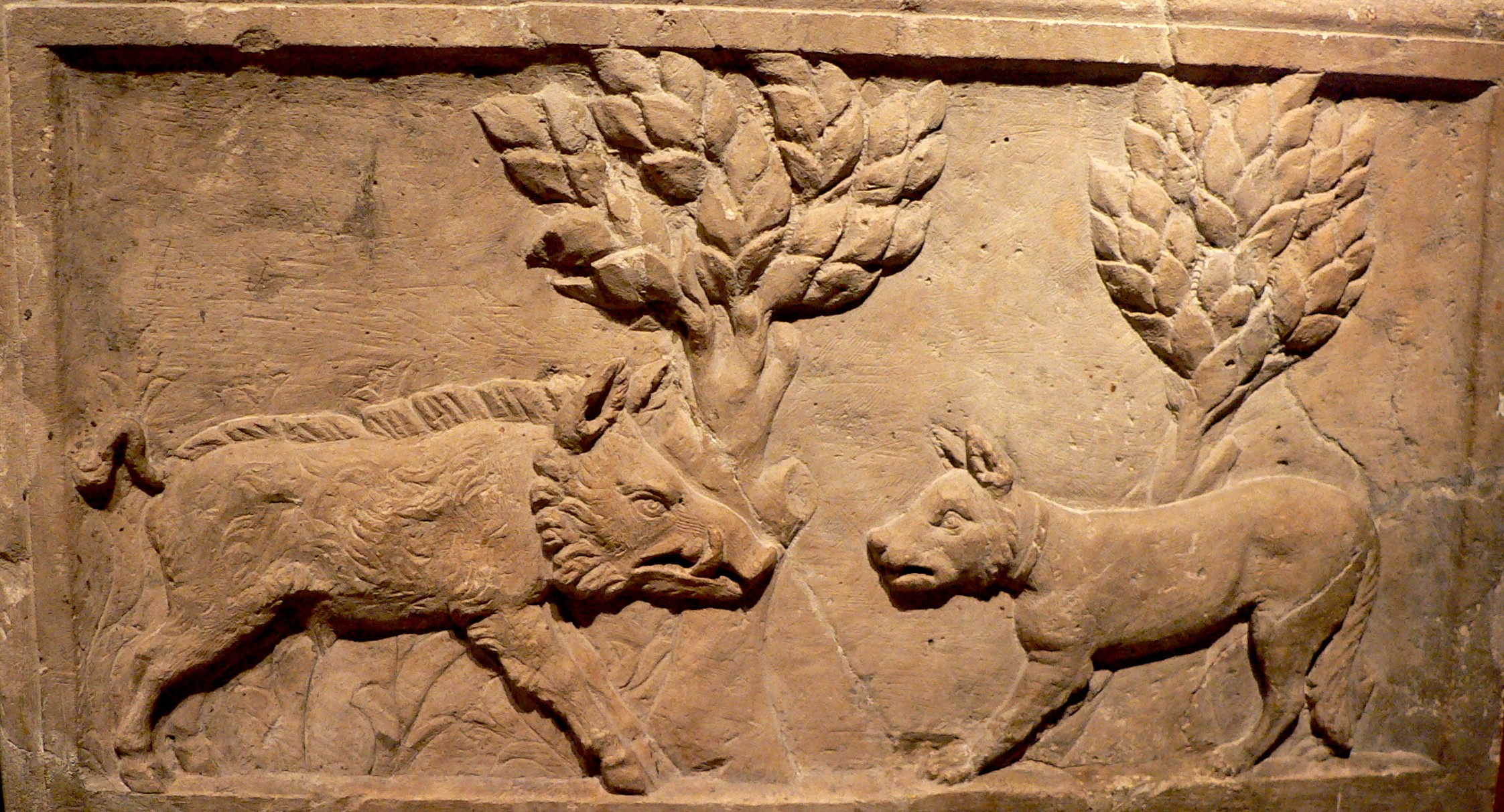 Wild Boar with hunting dog on a roman relief at the Römisch-Germanisches Museum in Cologne. Third Century. Relief has been found in Cologne.